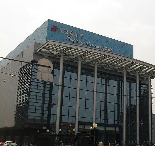 Beijing Concert Hall